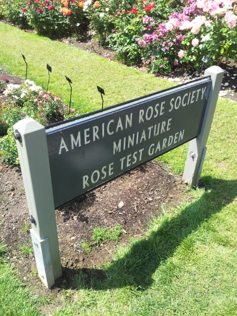 International Rose Test Garden, Portland, Oregon (2013)